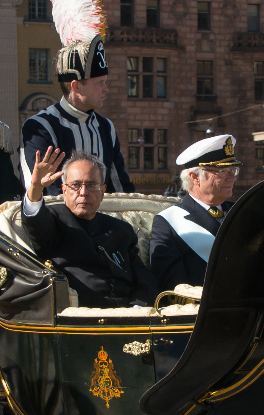 President of India Pranab Kumar Mukherjee on a visit to Sweden in 2015. Picture taken at the Norrbro in central Stockholm. To the right: King Carl XVI Gustaf of Sweden.